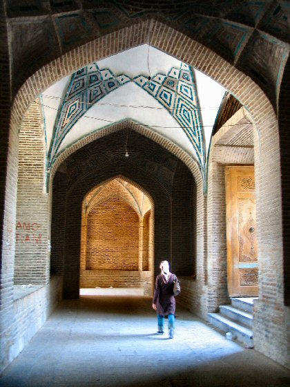 The north hall of Sultani mosque in Borujerd